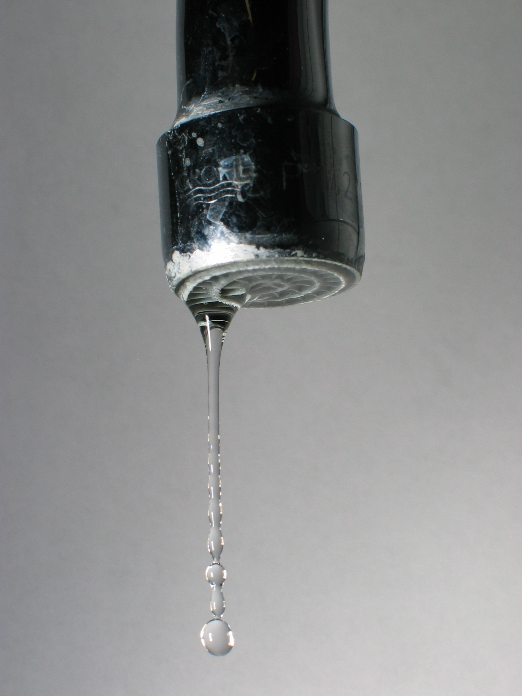 A drop detatching from a dripping faucet. Image taken by User:Dschwen on February 8th 2006.